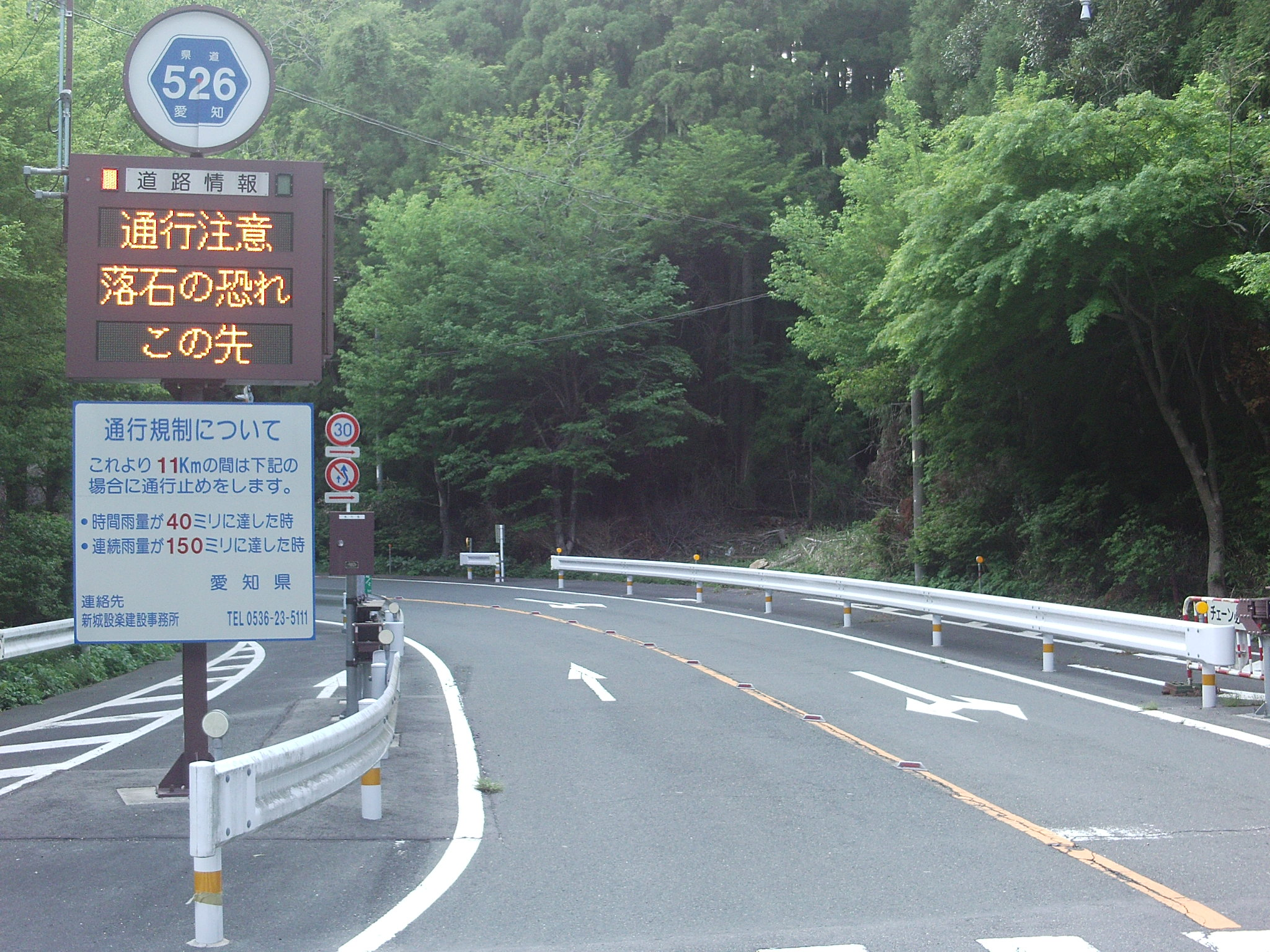 Aichi prefectural road No.526 in Tsukudeyasunaga, Shinshiro, Aichi.